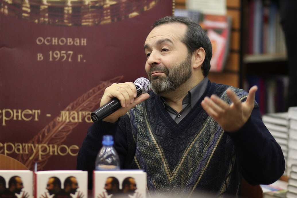 Victor Shenderovich, Russian satirist, writer and scriptwriter